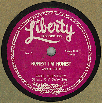 Honest, I'm Honest by Zeke Clements, Liberty [unknown year].